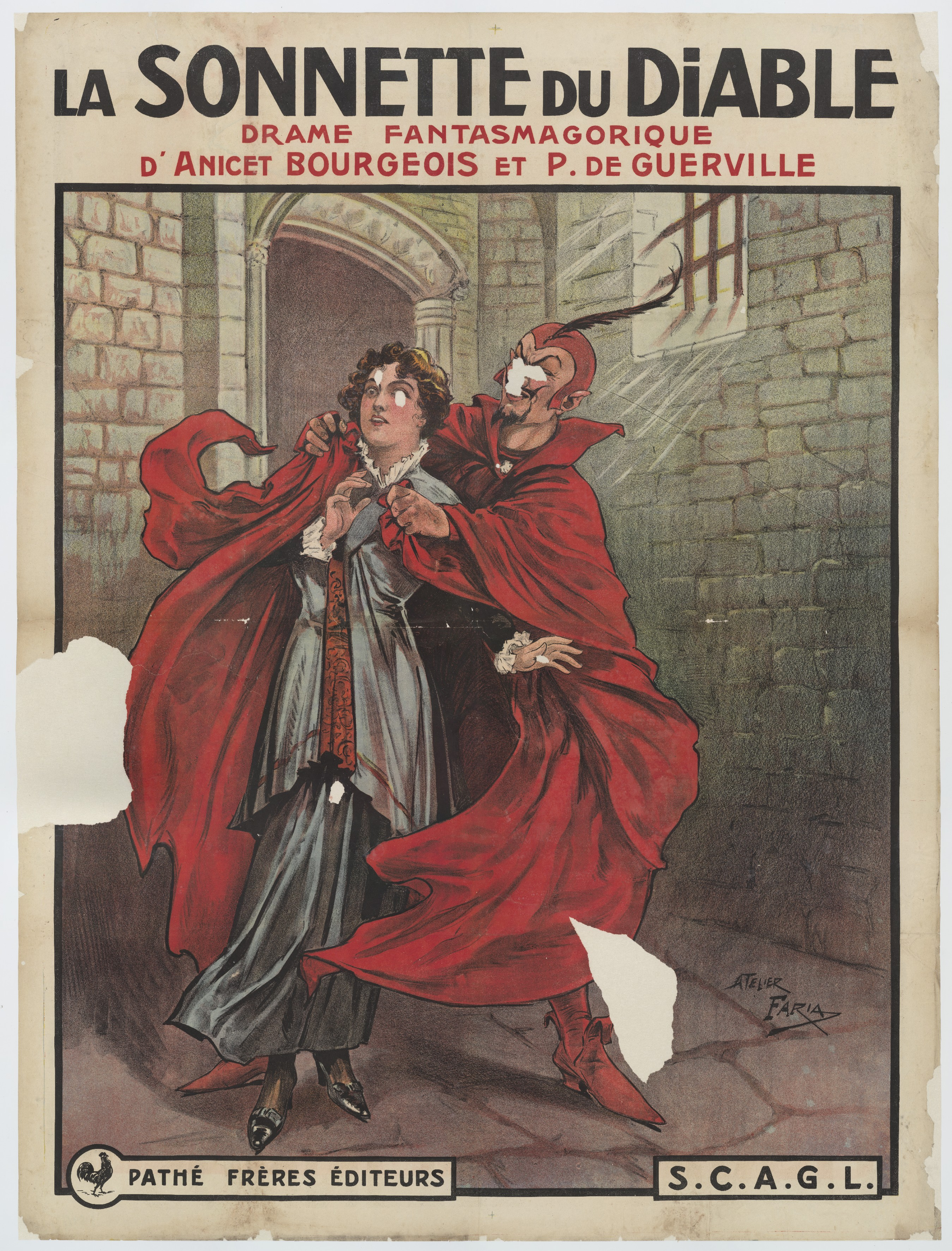 Poster for Pathé Frères (France). Drame fantasmagorique d'Anicet Bourgeois et P. Guerville. Film: Sonnette du diable, La (FR, René Plaisetty, 1910 - 1919) Pathé Frères Éditeurs - S.C.A.G.L. (Note: Société cinématographique des auteurs et gens de lettres) Litho